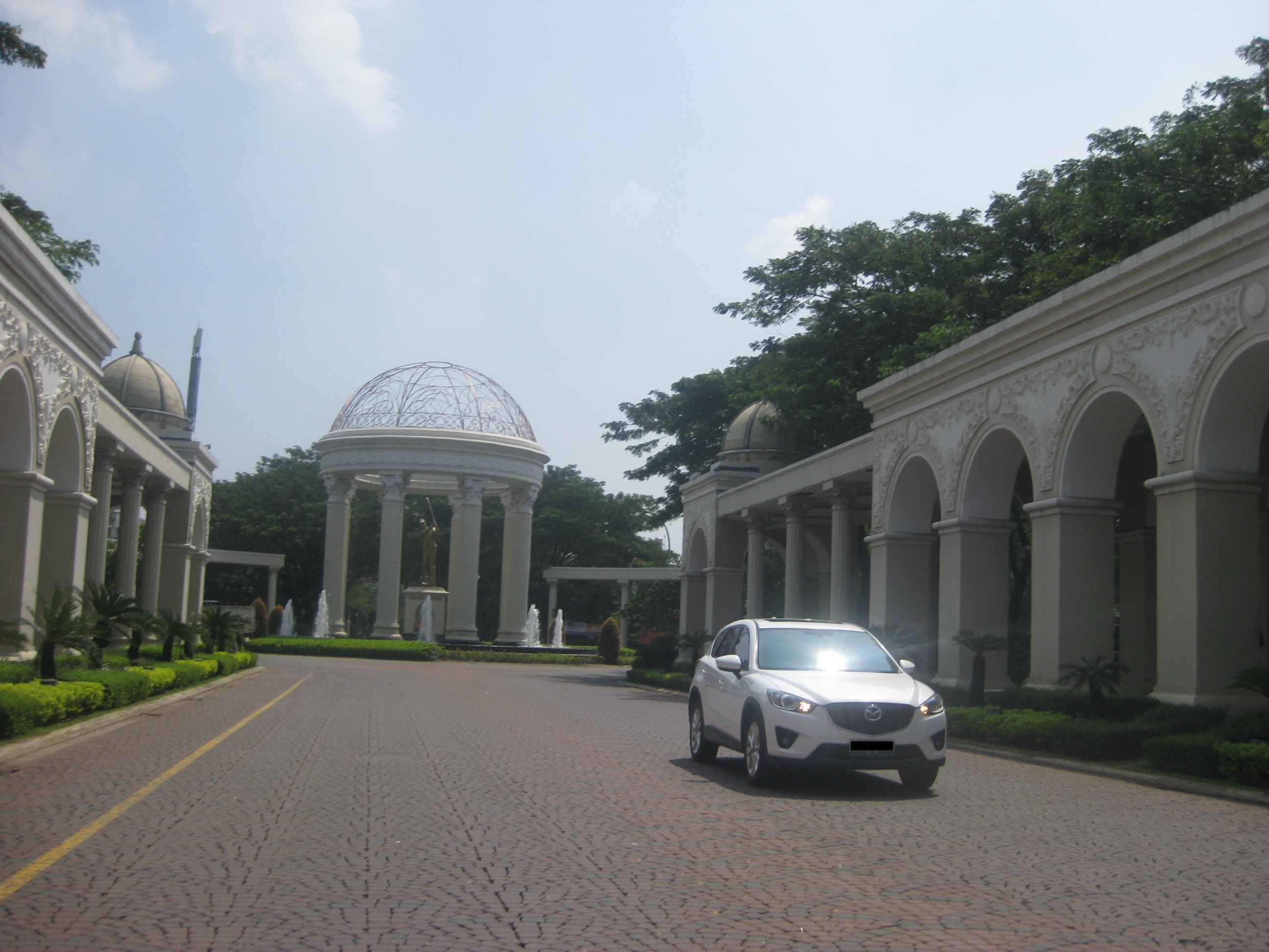 Bukit Golf Mediterrania in Pantai Indah Kapuk (PIK), North Jakarta, Indonesia. Car shown is a Mazda CX-5 Touring.